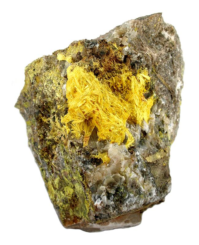 Uranophane - alpha Locality: Ambrosia Lake area, Grants District, McKinley County, New Mexico, USA (Locality at ) Size: cabinet, 11.2 x 9.5 x 8.1 cm Uranophane This remarkable specimen iis the richest, most colorful large example of this classic material I have yet seen. I am told they were found in the 1950s, primarily. This comes out of a small midwestern museum collection, where it has been sheltered all these years, and the pockets of crystals are in incredible condition. I have never seen the mineral in such thick, velvety layers of long crystals before. I believe it to be quite significant , thus, both for the locality AND for the species